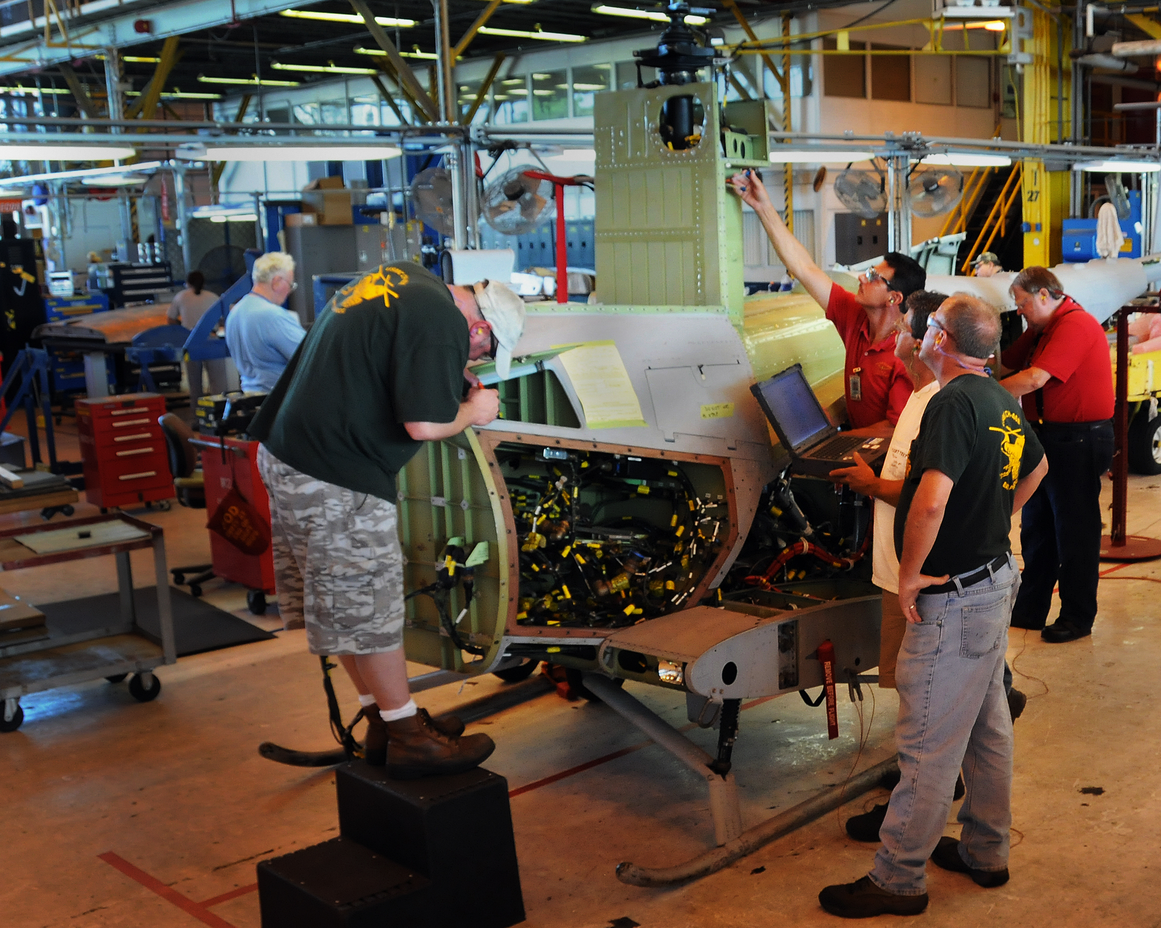 CHERRY POINT, N.C. (May 14, 2010) Civilian artisans from Fleet Readiness Center East perform maintenance and corrosion assessments on two MQ-8B Fire Scout Vertical Takeoff and Landing Unmanned Aerial Vehicles (VTUAV) at Marine Corps Air Station Cherry Point, N.C. (U.S. Navy photo by David R. Hooks/Released)